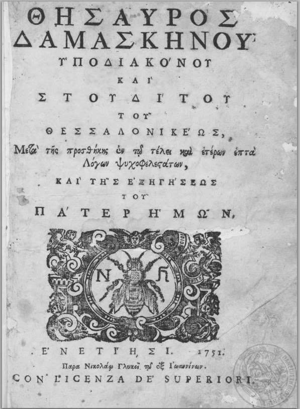 Thesaurus by Damaskinos Stouditis.